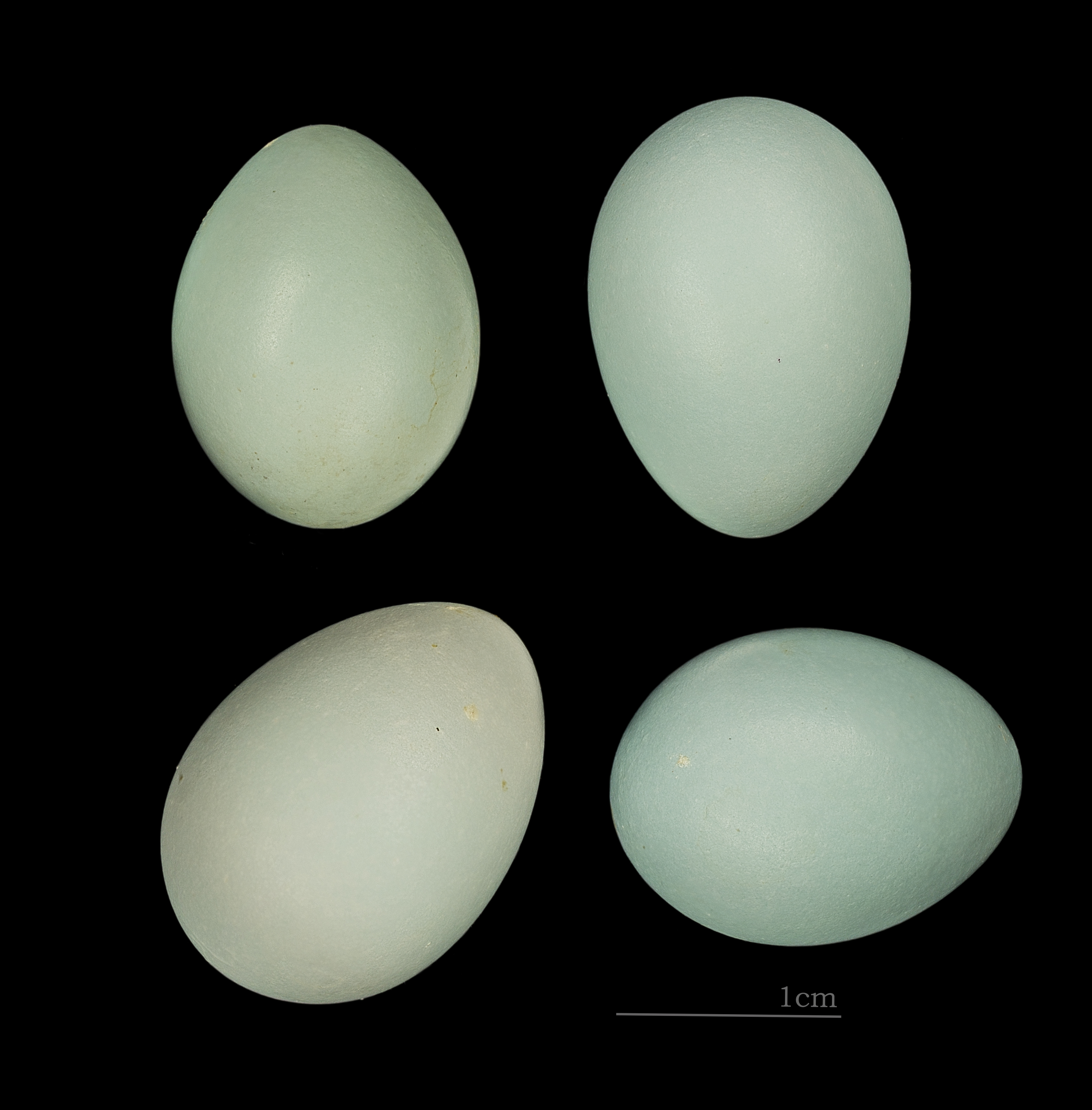 Egg of Rufous-breasted Accentor Collection of Henri Heim de Balsac /Jacques Perrin de Brichambaut.